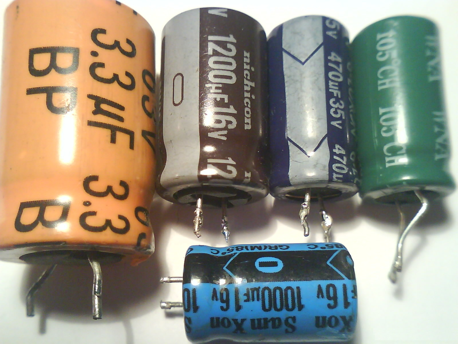 Condensers in different colors.